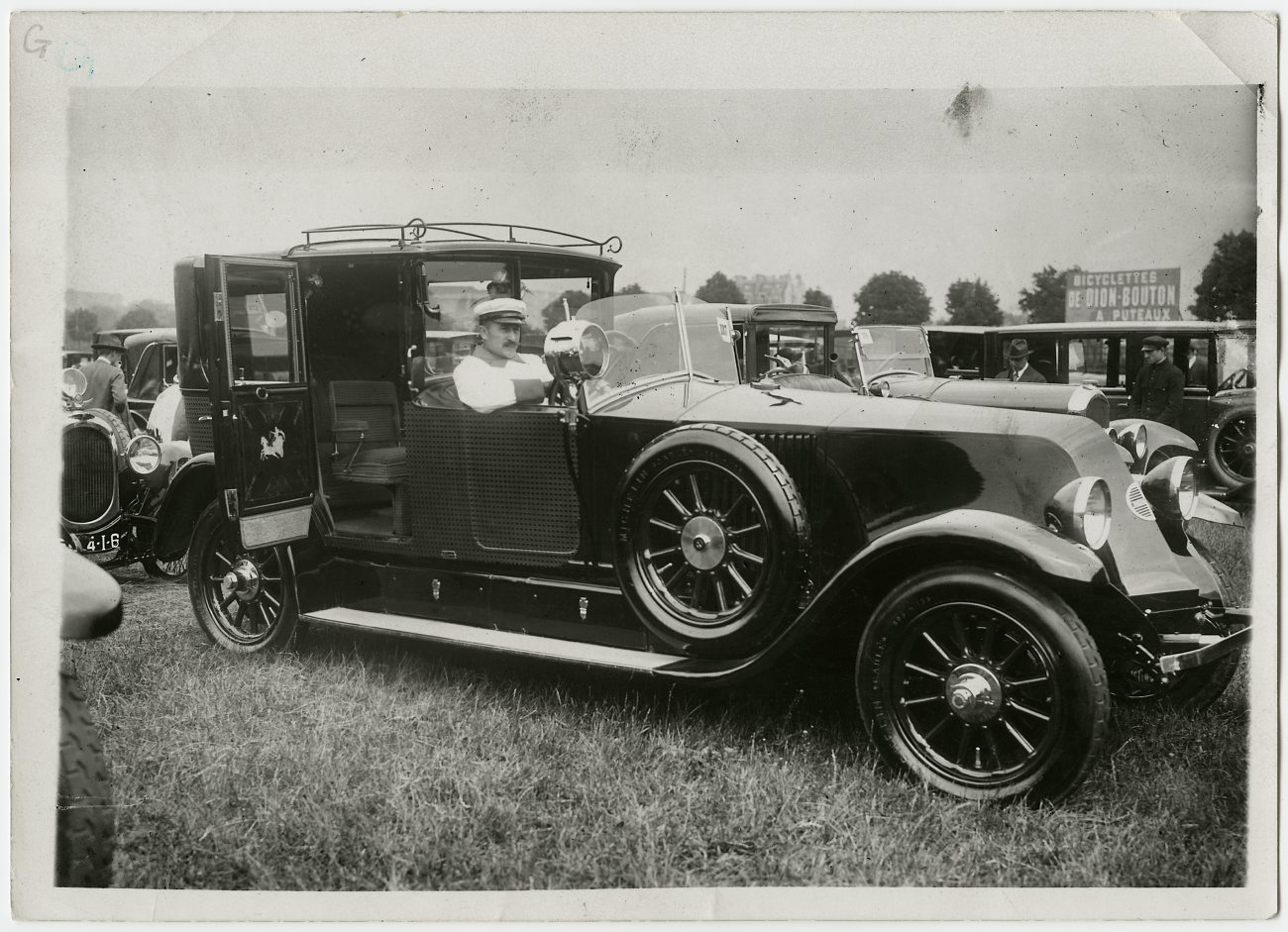 Renault Type MG Coupe-Chauffeur Image from National Museum of Science and Technology, Sweden